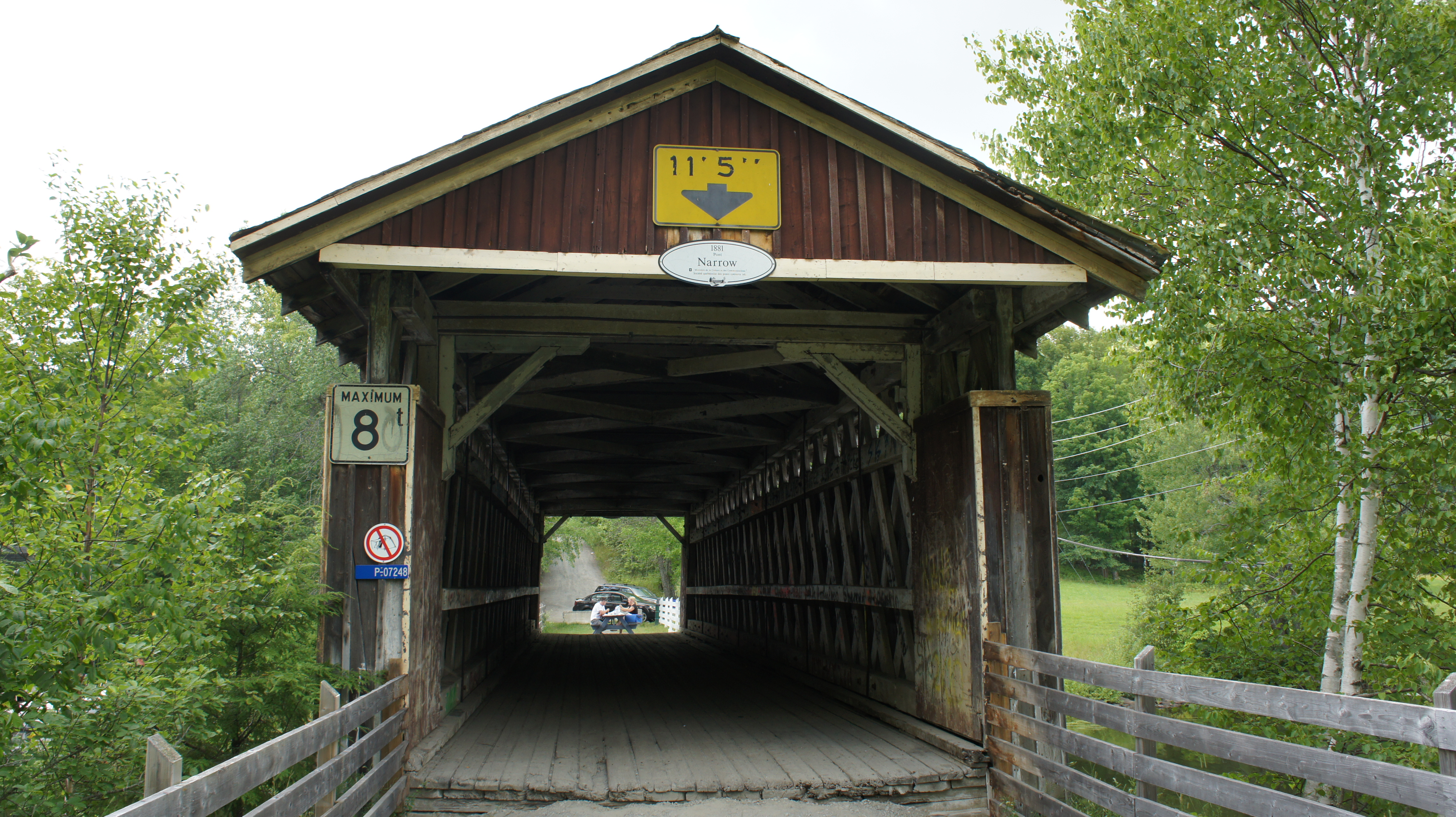 The Narrows covered bridge, Fitch Bay, Quebec Canada